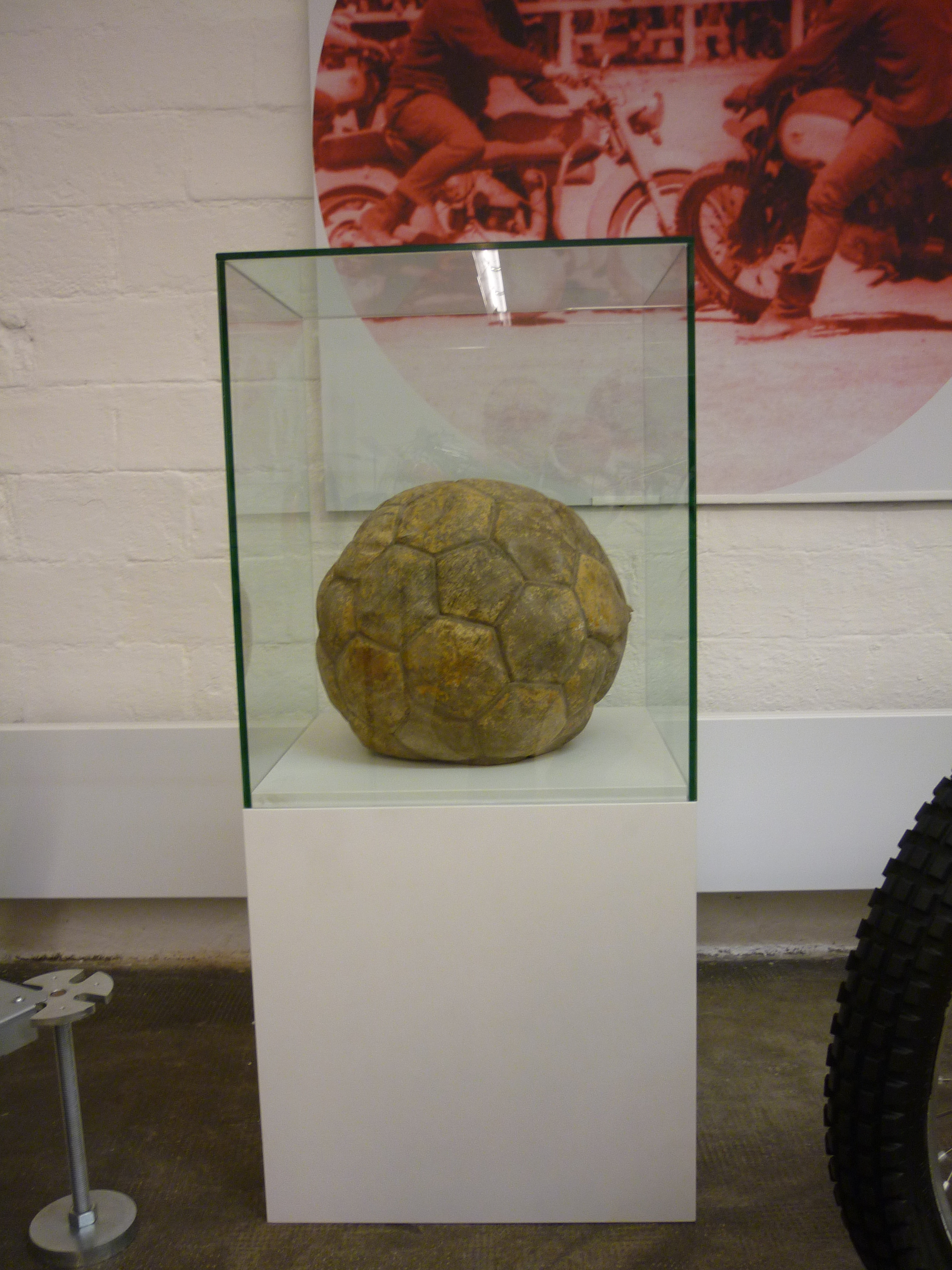 A ball used in Motoball events held in Catalonia durint the 50's